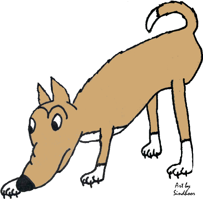 Sniffing the ground is a calming signal